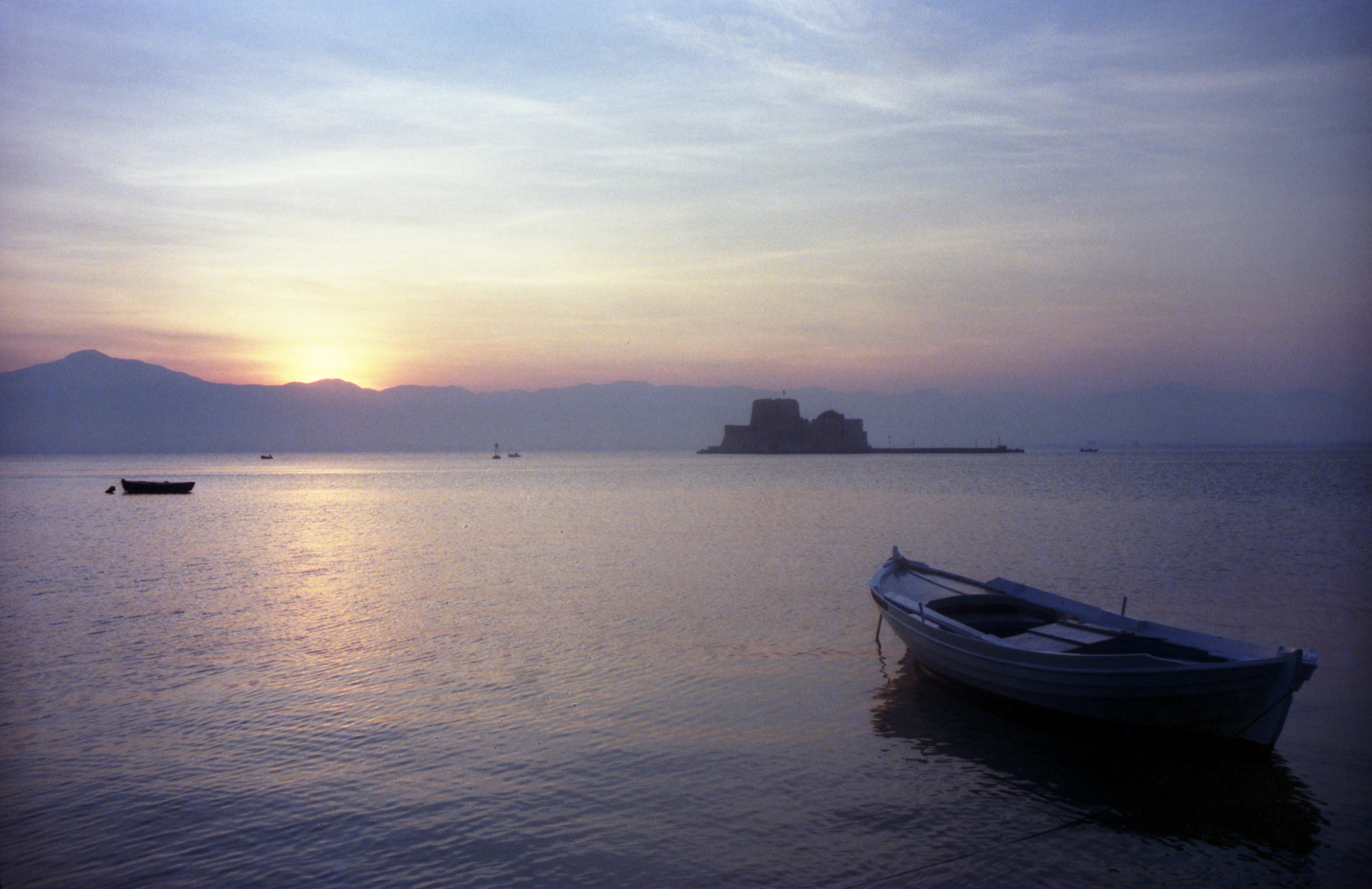 Bourtzi Castle at sunset, Náfplio, Greece.